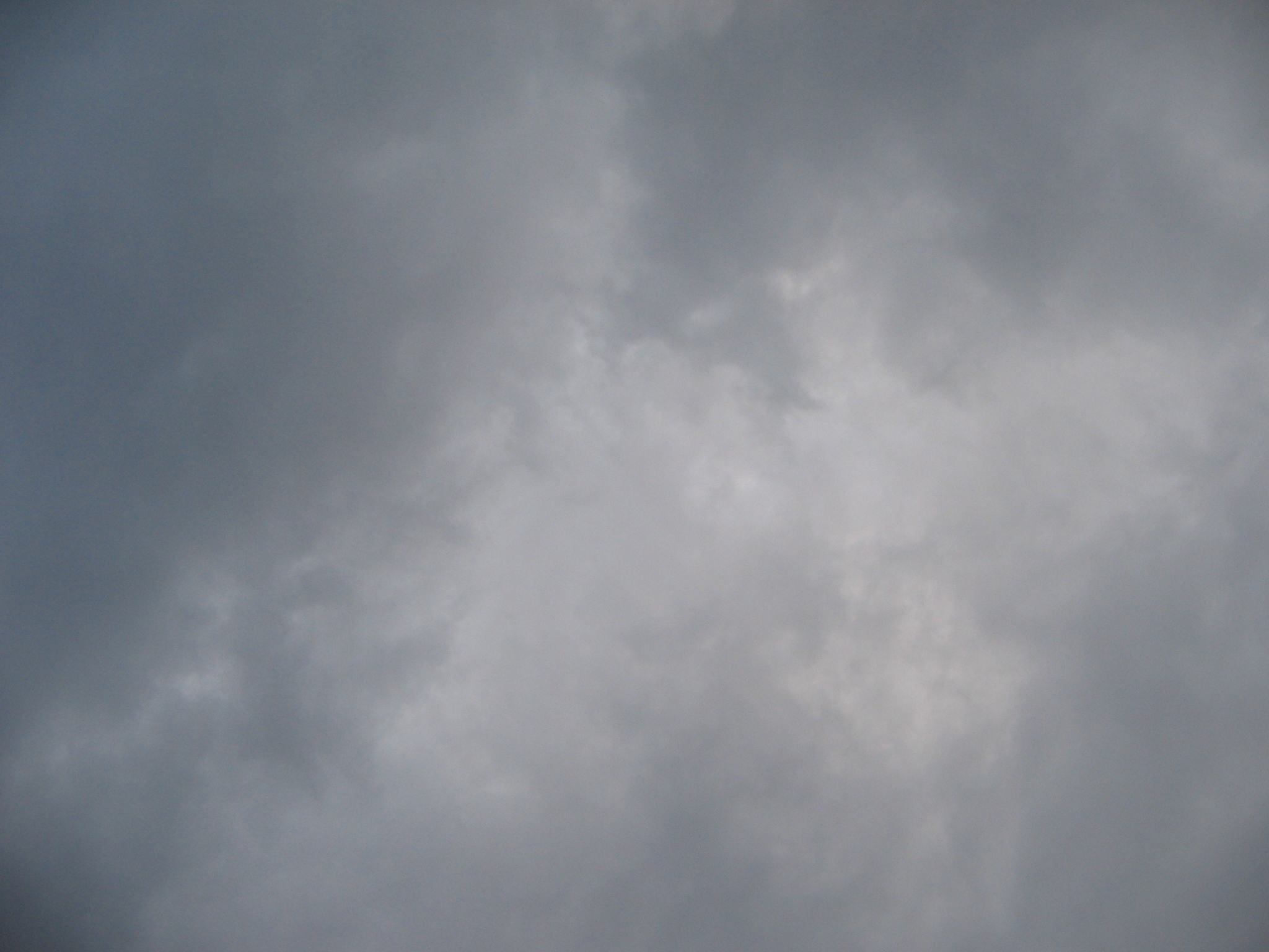 Weather/Cloud types/Bottom of young Cumulonimbus calvus-cloud, it is turbulent, there is also Fractostatus clouds.